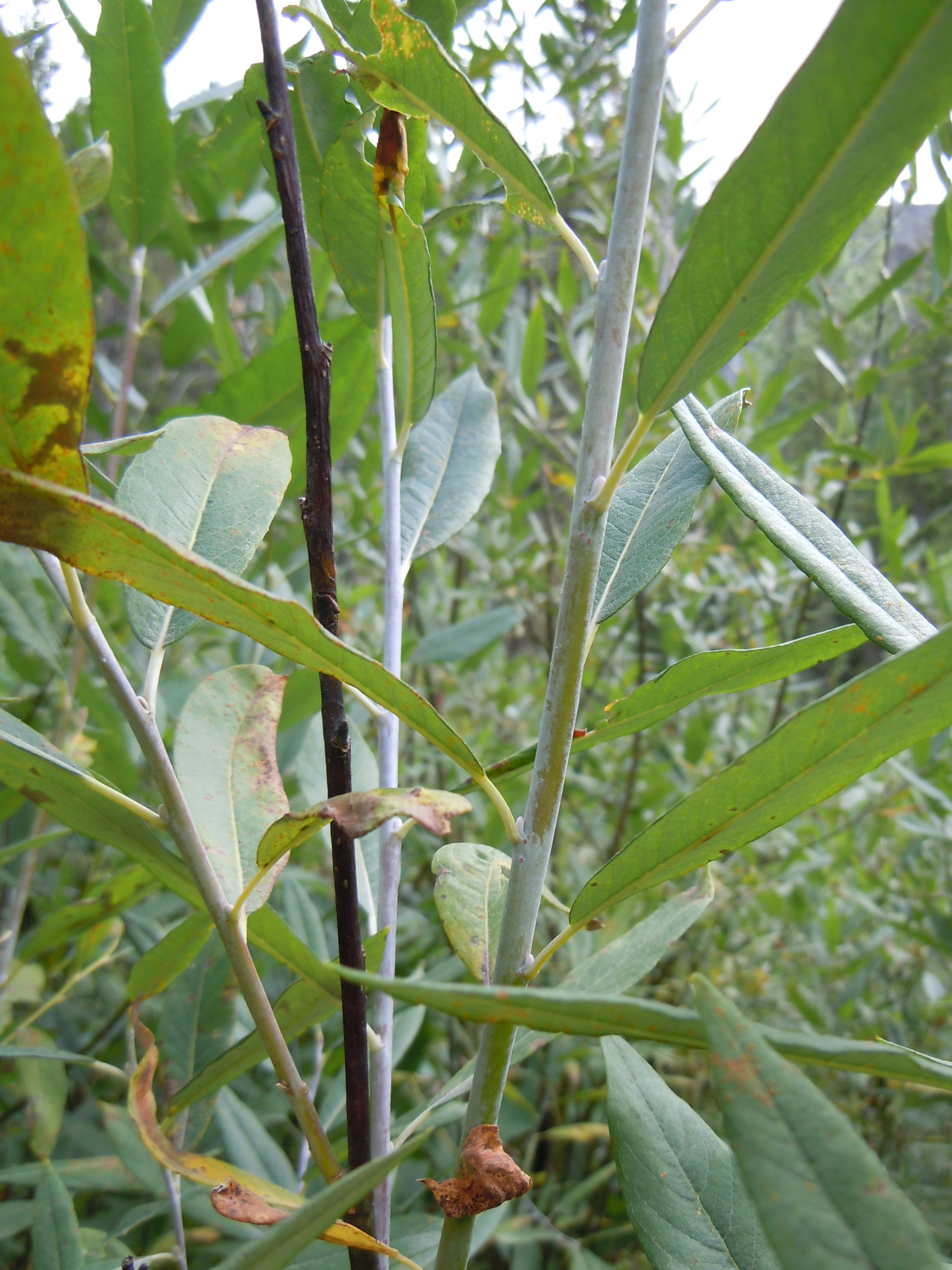 The twig tips and lower leaf surfaces are distinctively glaucous.